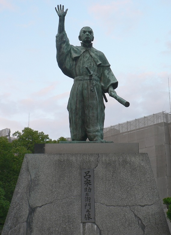 The bronze statue of Luzon Sukezaemon at Sakai-citizen hall, Sakai city ,Osaka ,Japan（大阪府堺市の市民会館前にある呂宋助左衛門銅像）